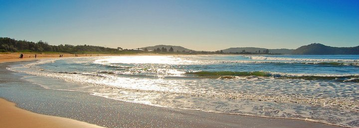 Umina2257